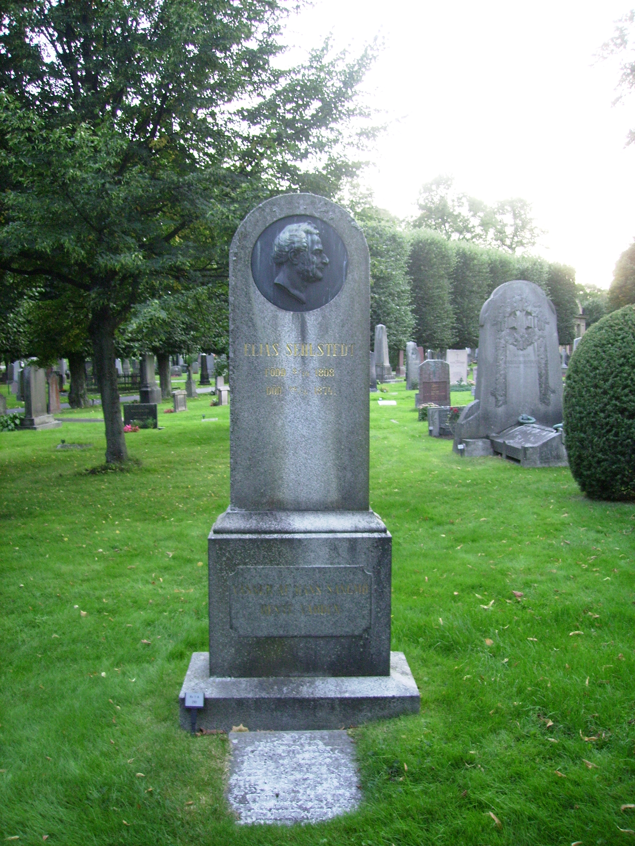 Picture of Elias Sehlstedt's grave at Norra begravningsplatsen in Stockholm